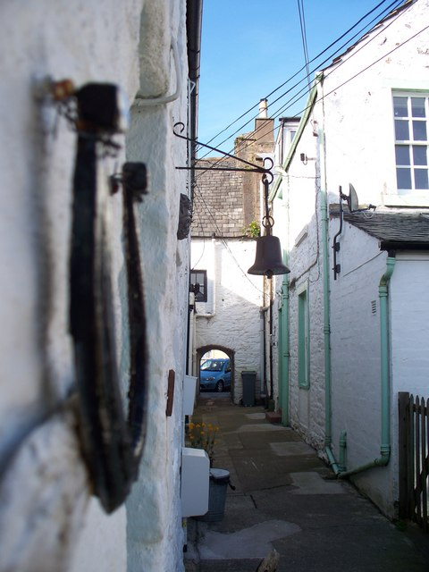 Looking out of Canons Close onto Kirkcudbright High Street View in direction of High Street from The doorway of Gable Cottage.